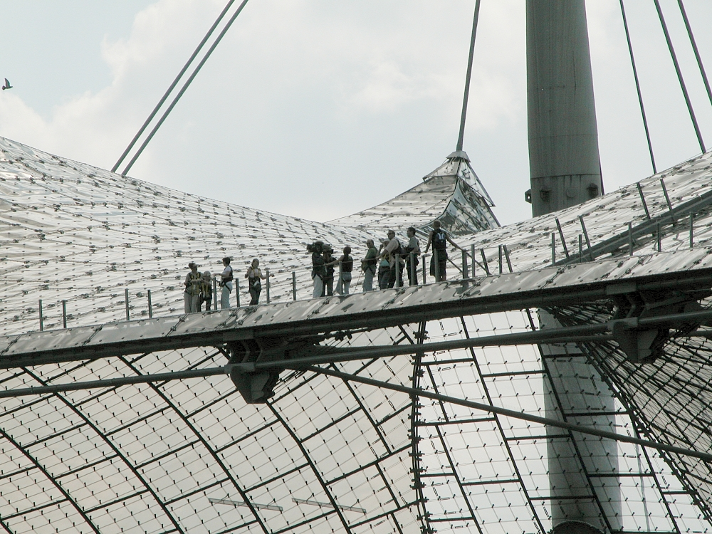 Olympic Stadium (Munich), Germany